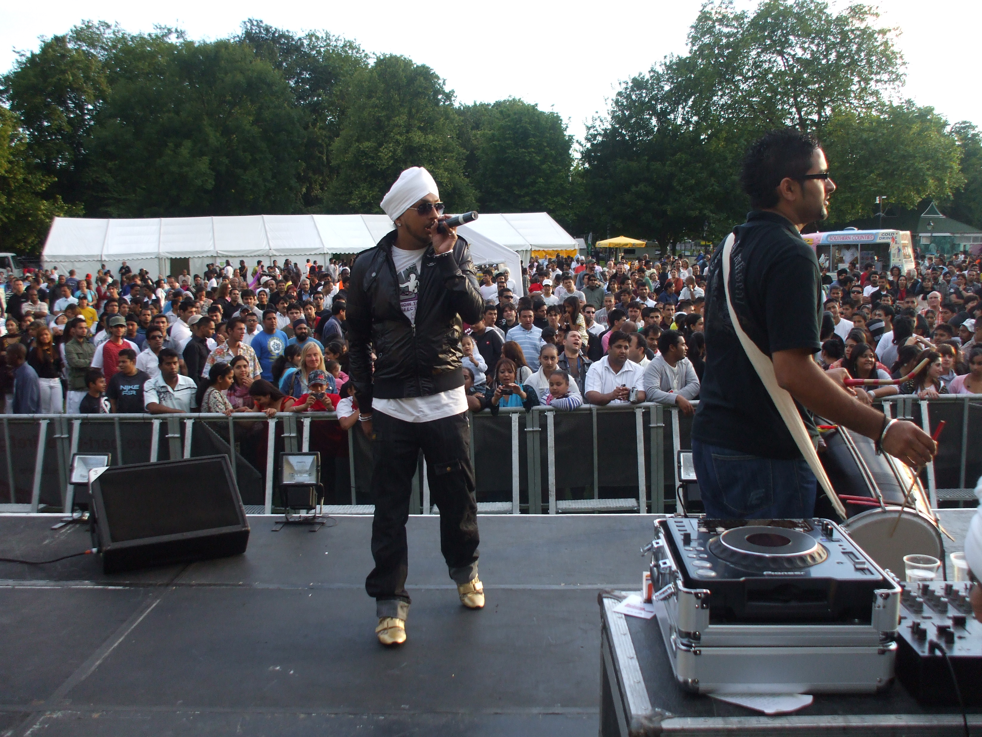 Indy Sagu Southampton 2009